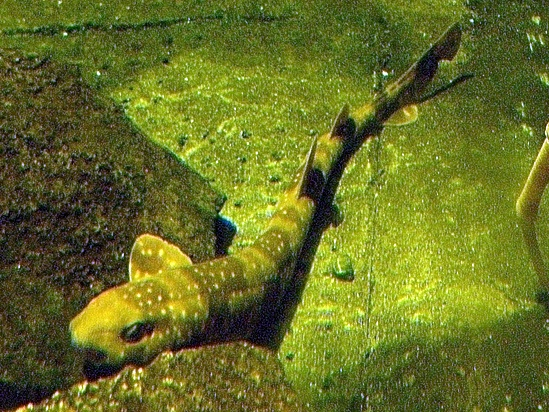 Cloudy catshark (Scyliorhinus torazame) at the Enoshima Aquarium